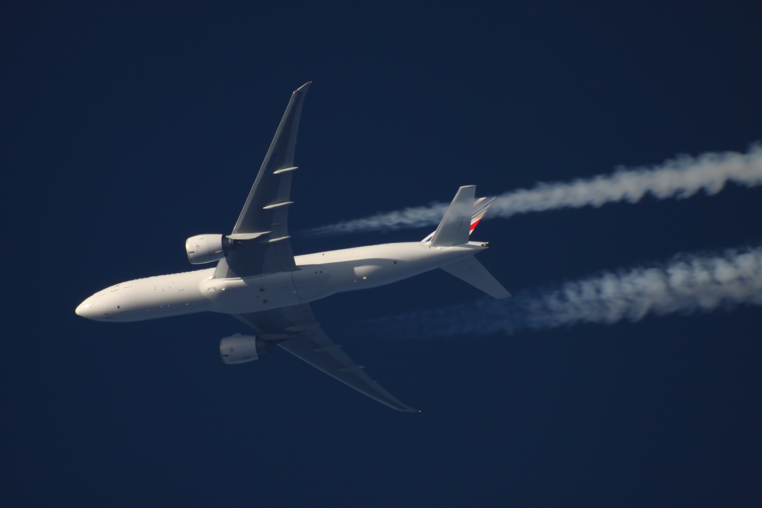 Air France Cargo Boeing 777F (reg. F-GUOB) cruising at 10600m over Moscow